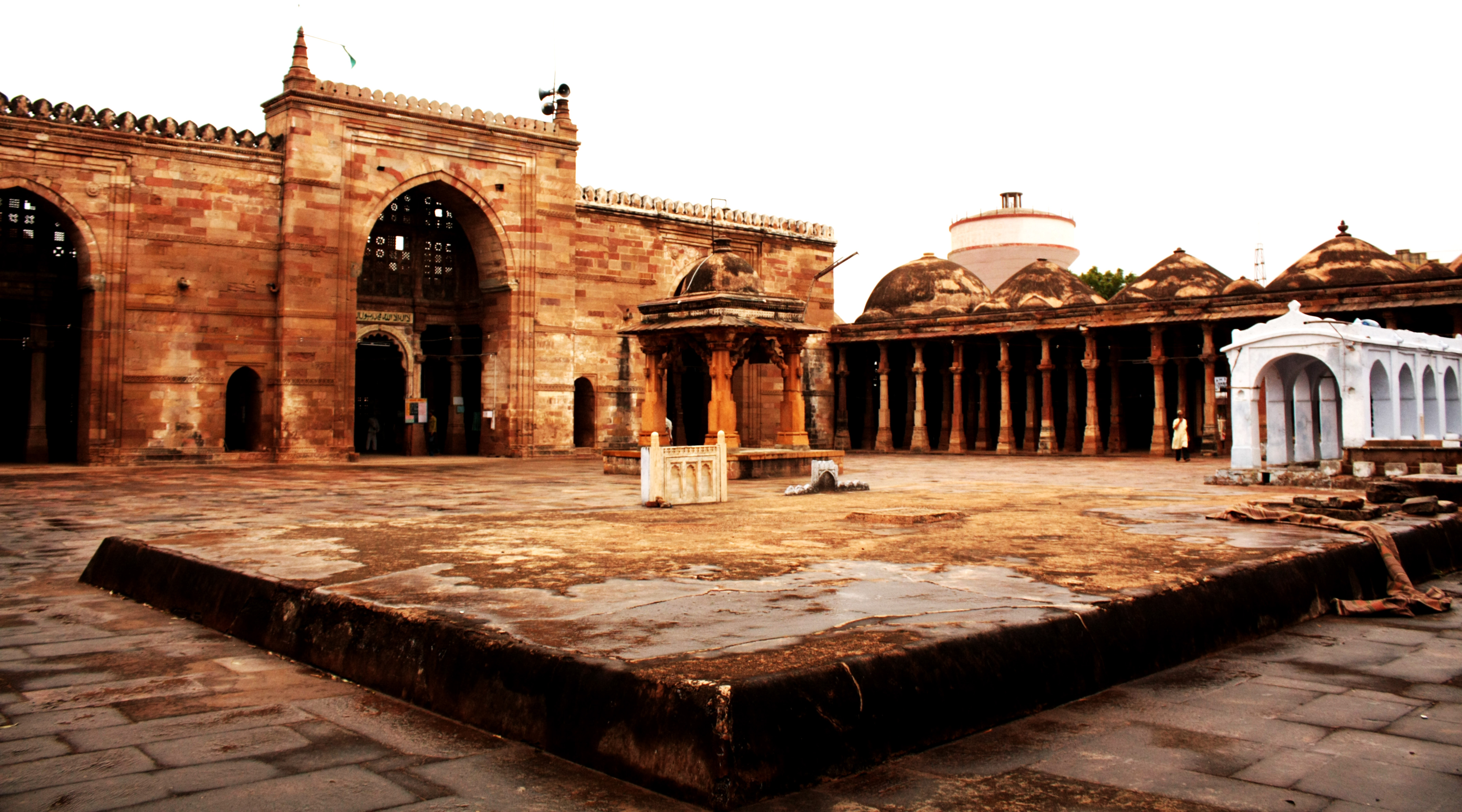 Jami Masjid Complex taken from the central courtyard Location - Khambhat (Anand District), Gujarat - India